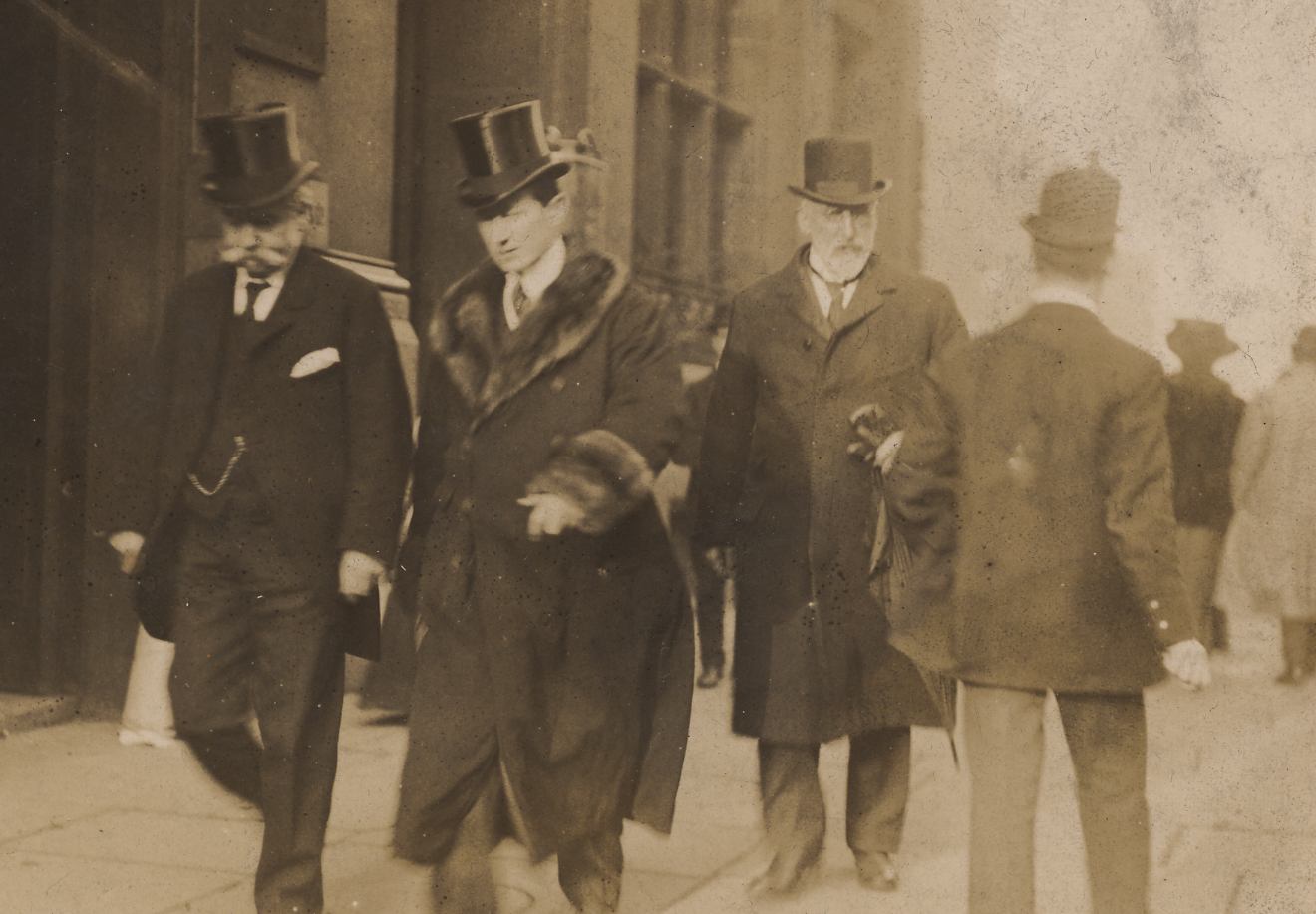 Full version. Cropped version of File:Thomas Henry Barker with Sir A. J. Jones and Mr Marconi.tif